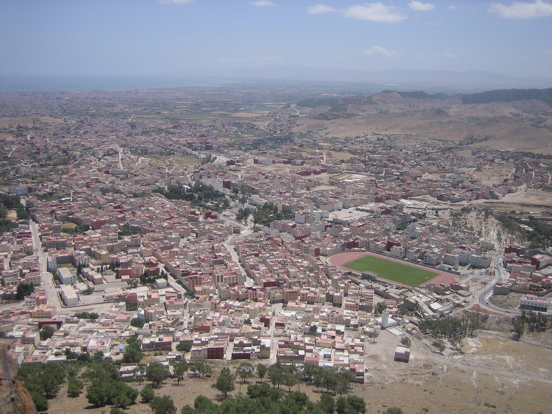 Azghenghan (Segangan) city Nador province Morocco.